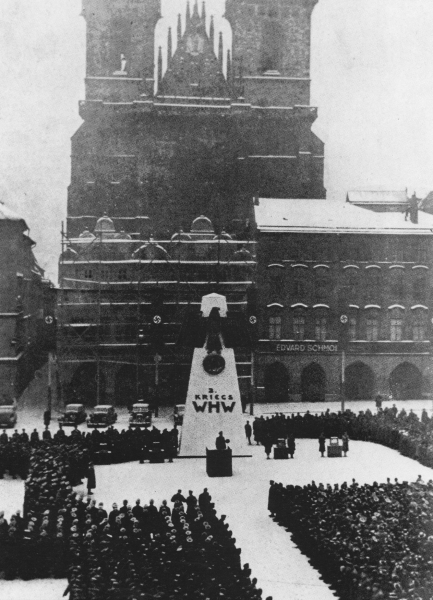 Winterhilfe